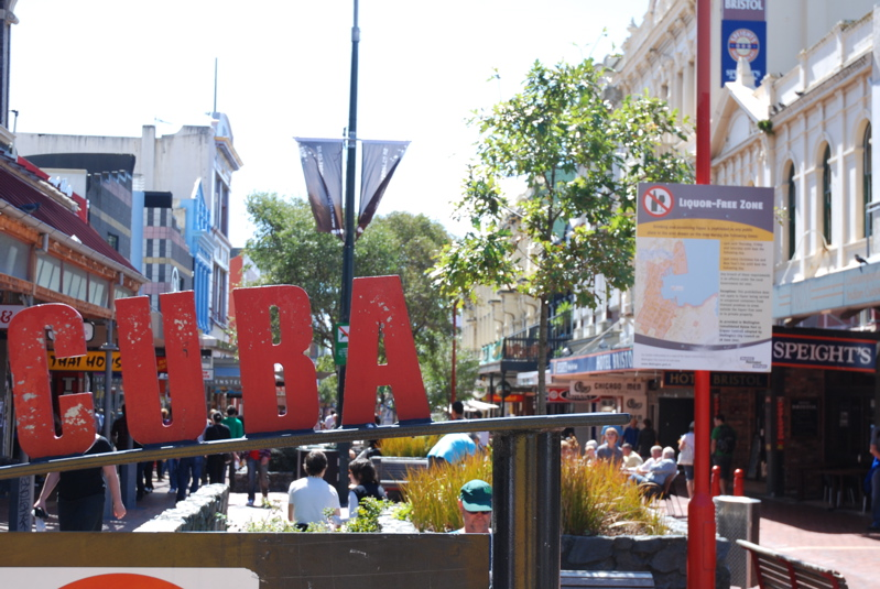 A photo from Cuba Street, Wellington, New Zealand.